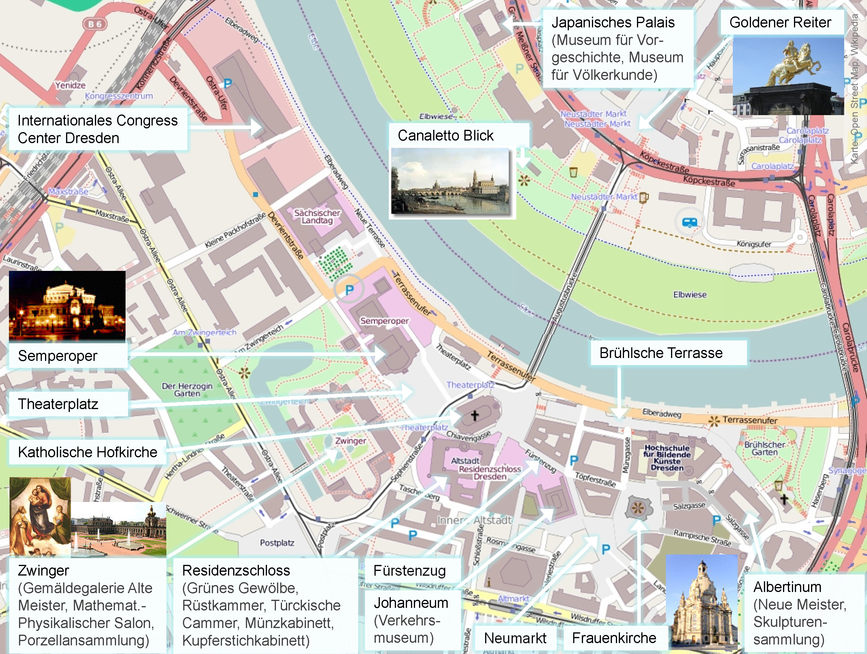 Major sights in the historic center of Dresden